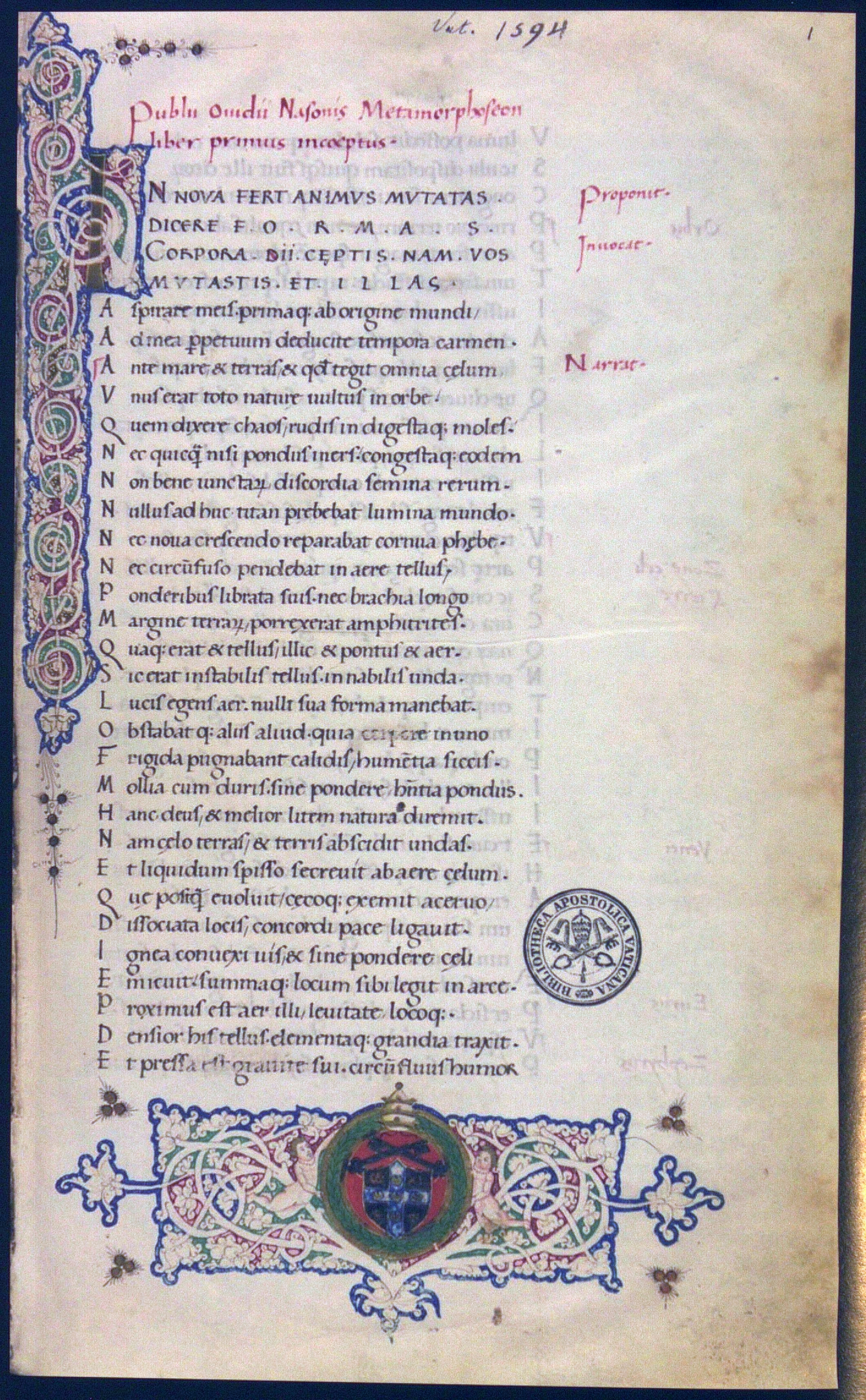 The beginning of the Metamorphoses in the manuscript Vatican City, Biblioteca Apostolica Vaticana, Vat. lat. 1594, fol 1r.